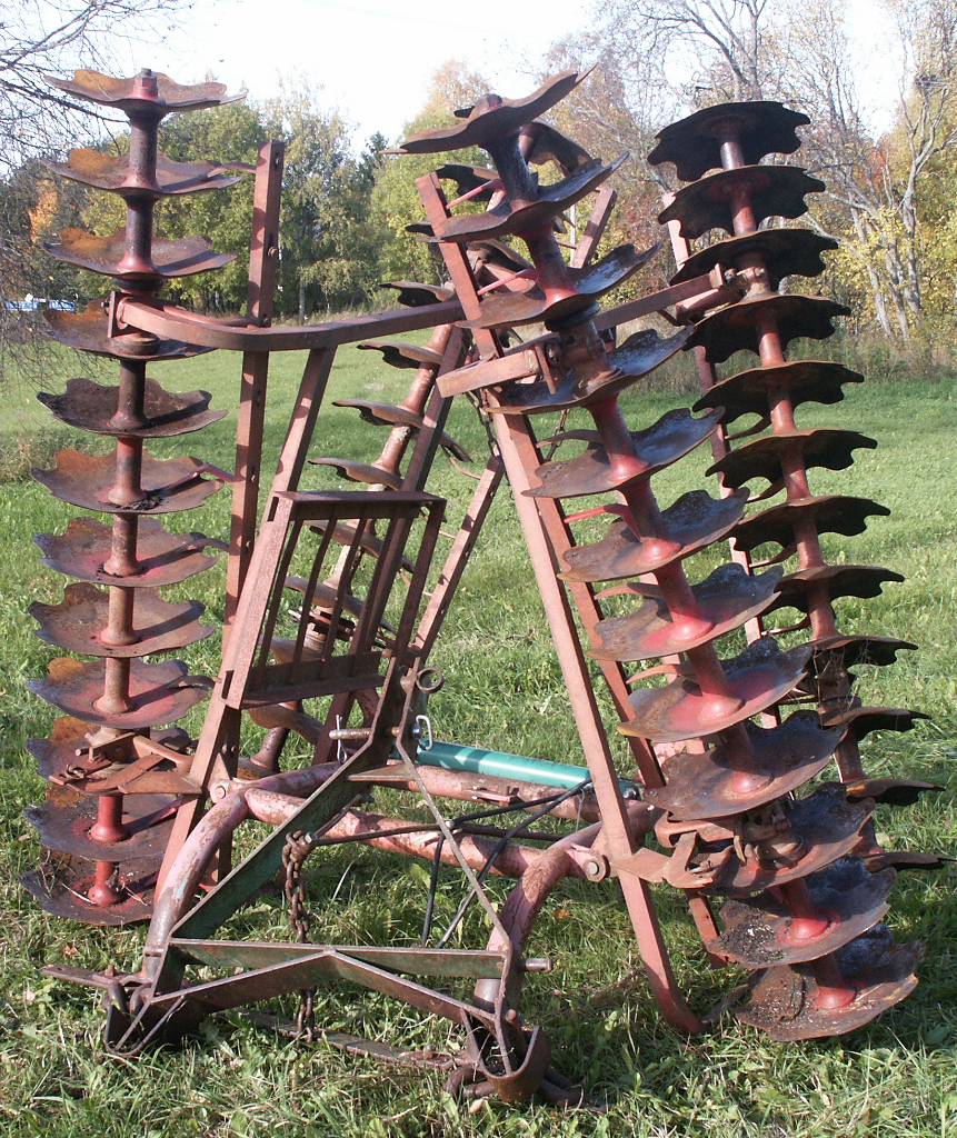 Disc harrow 4m/48 discs